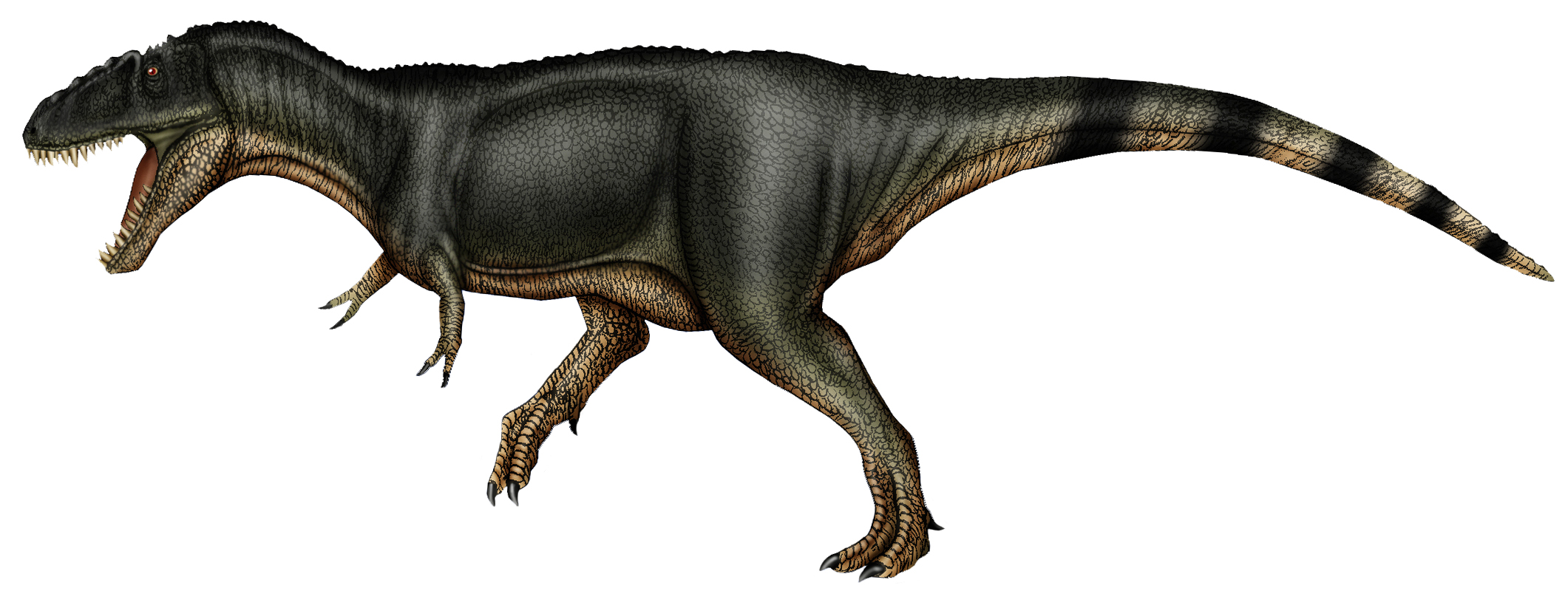 Labocania anomala